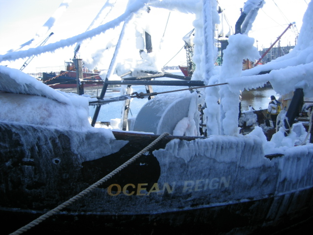 Black ice on fishing ship OCEAN REIGN. It's a danger for cold-weather fishing trawlers, as ice forms on its superstructure, a boat can become top heavy, and in rough weather this unbalanced extra weight may capsize it. IMO number: 7048037 Callsign: WBO9137